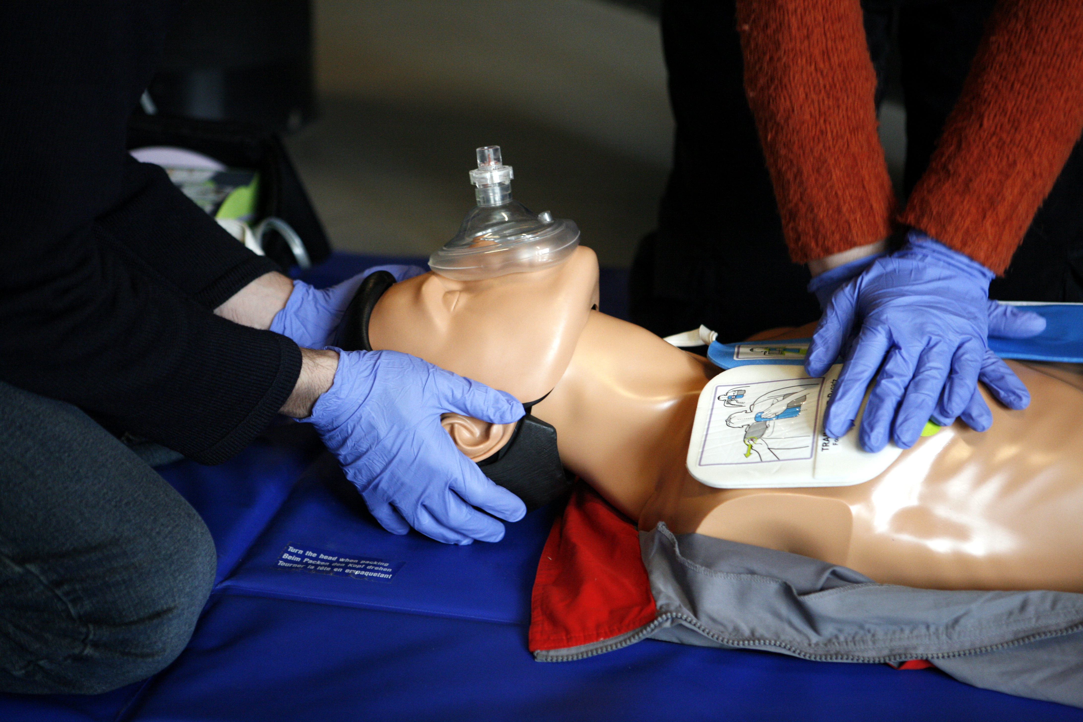 CPR training